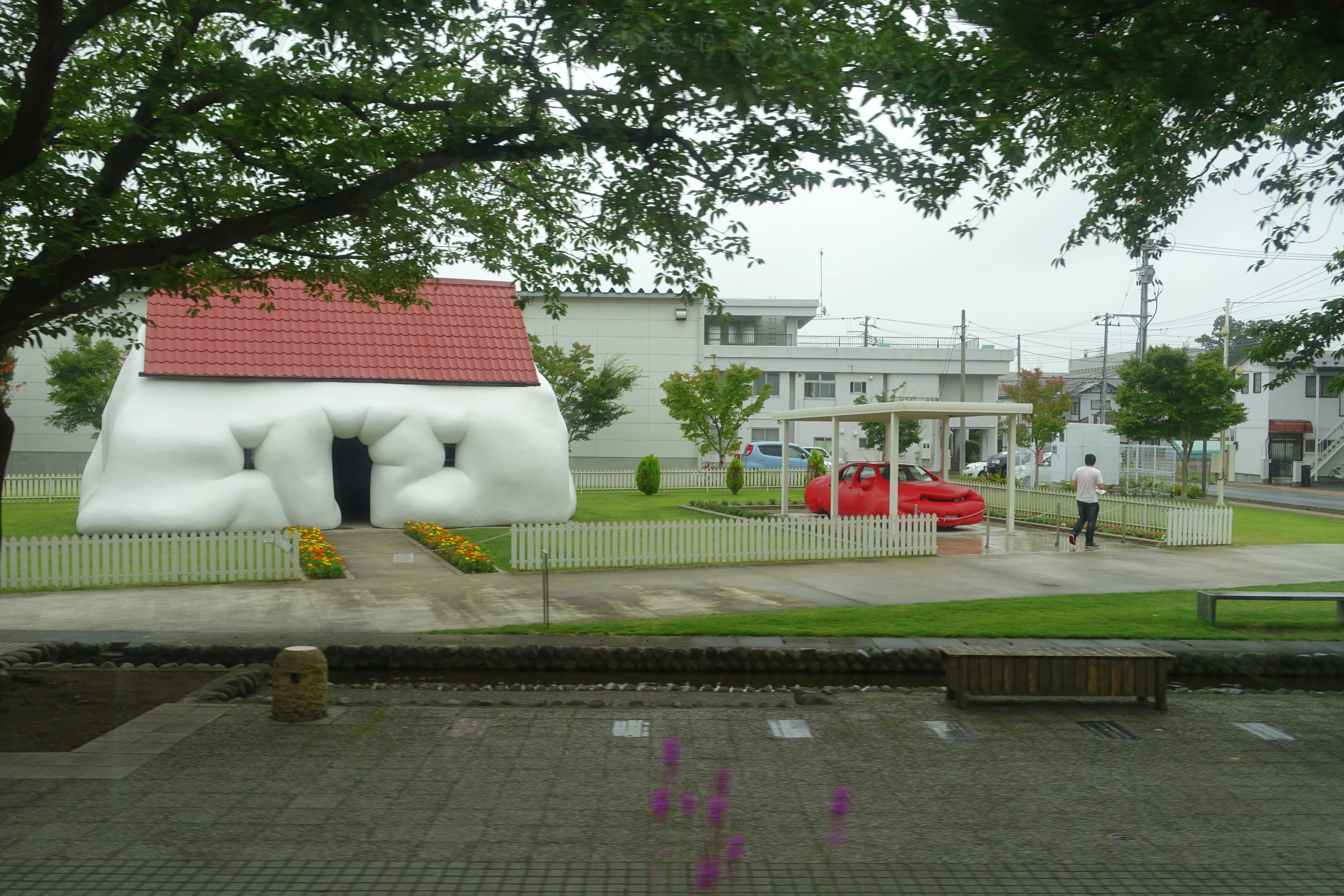 Towada Art Center - Towada, Aomori, Japan.